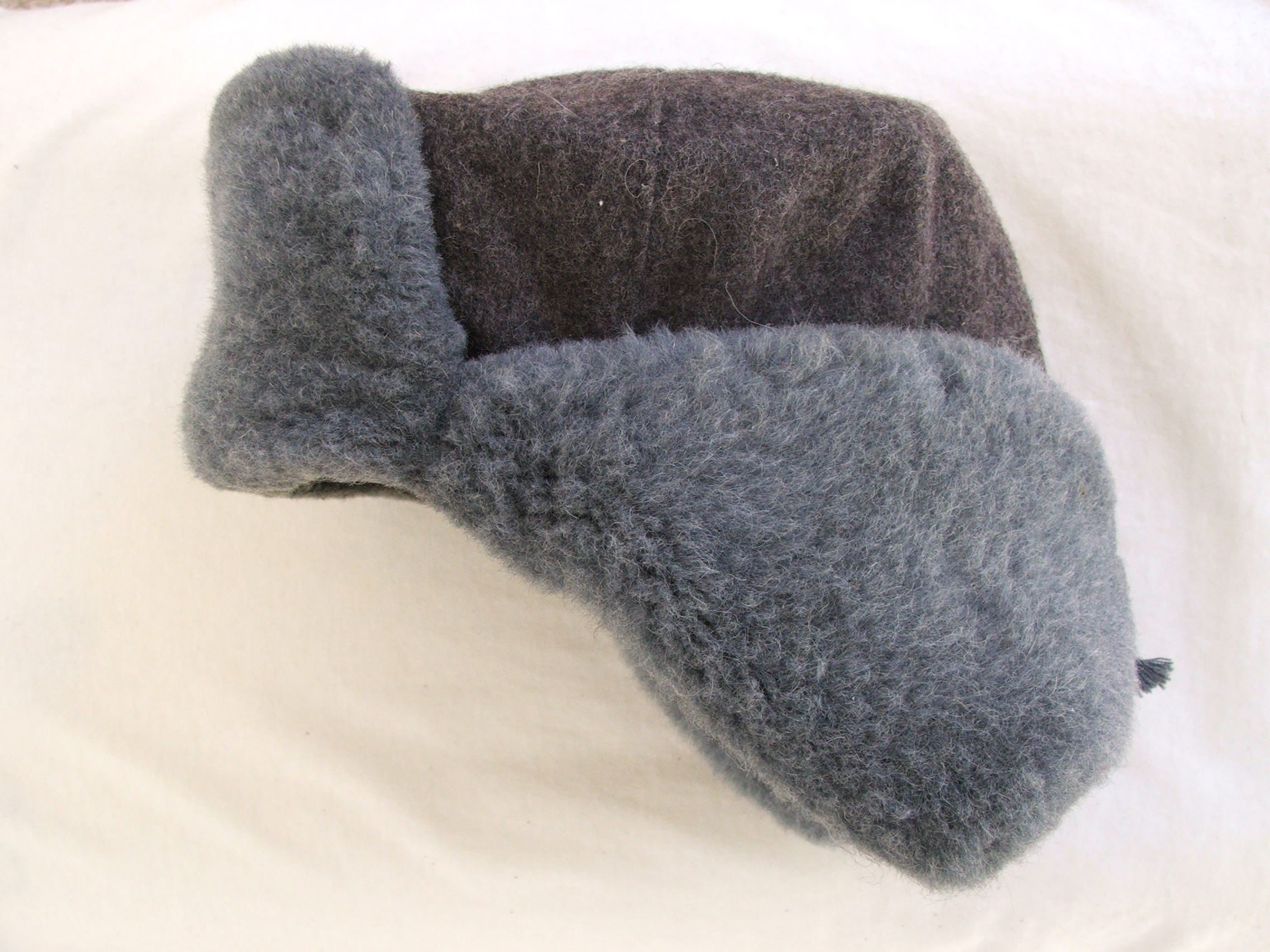 Ushanka of soldier of the Soviet Army. Made in 1988, in Babruysk.